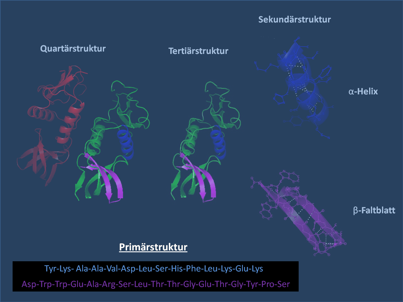 Faltung des Proteins 1EFN mit Fokus auf die Primärstruktur